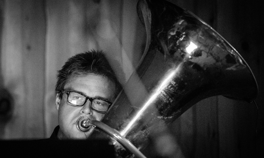 Lars Andreas Haug with Never on a Sunday at the stage in Fjøsen. The concert was part of Jazz på Jølst and took place at Skei on 13. October 2017. Lineup: Ragnhild Furebotten (fiddle), Helge Sunde (trombonium), Frode Nymo (saxophone), Atle Nymo (saxophone), Marius Haltli (trumpet), Eckhard Baur (trumpet) and Lars Andreas Haug (tuba).